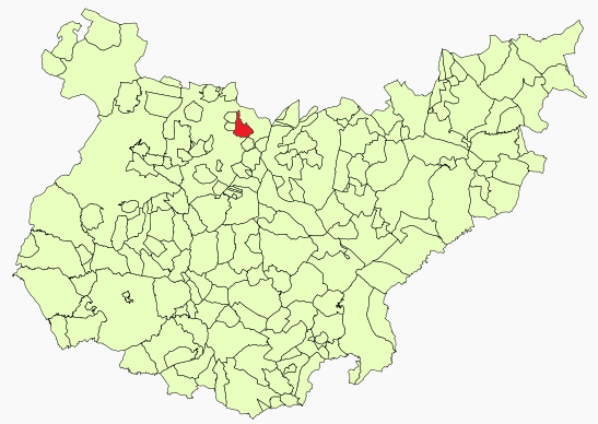 Mirandilla